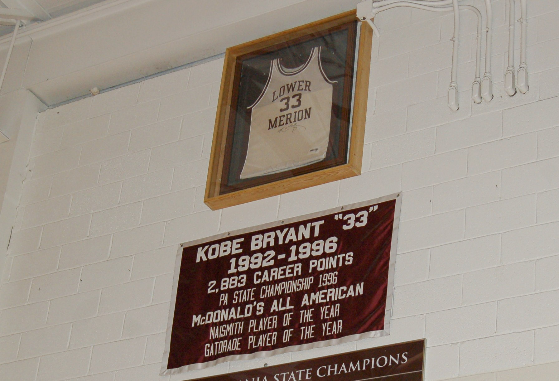 Kobe Bryant retired jersey banner at Lower Merion High School